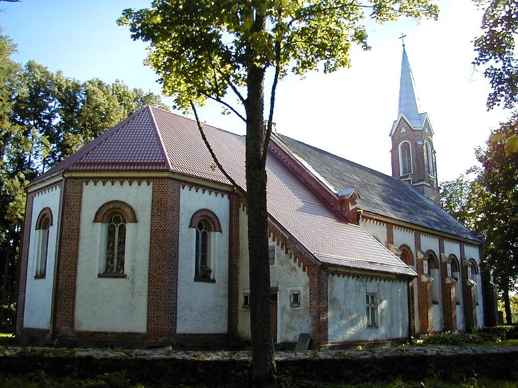 Viļķene lutheran church (Latvia)